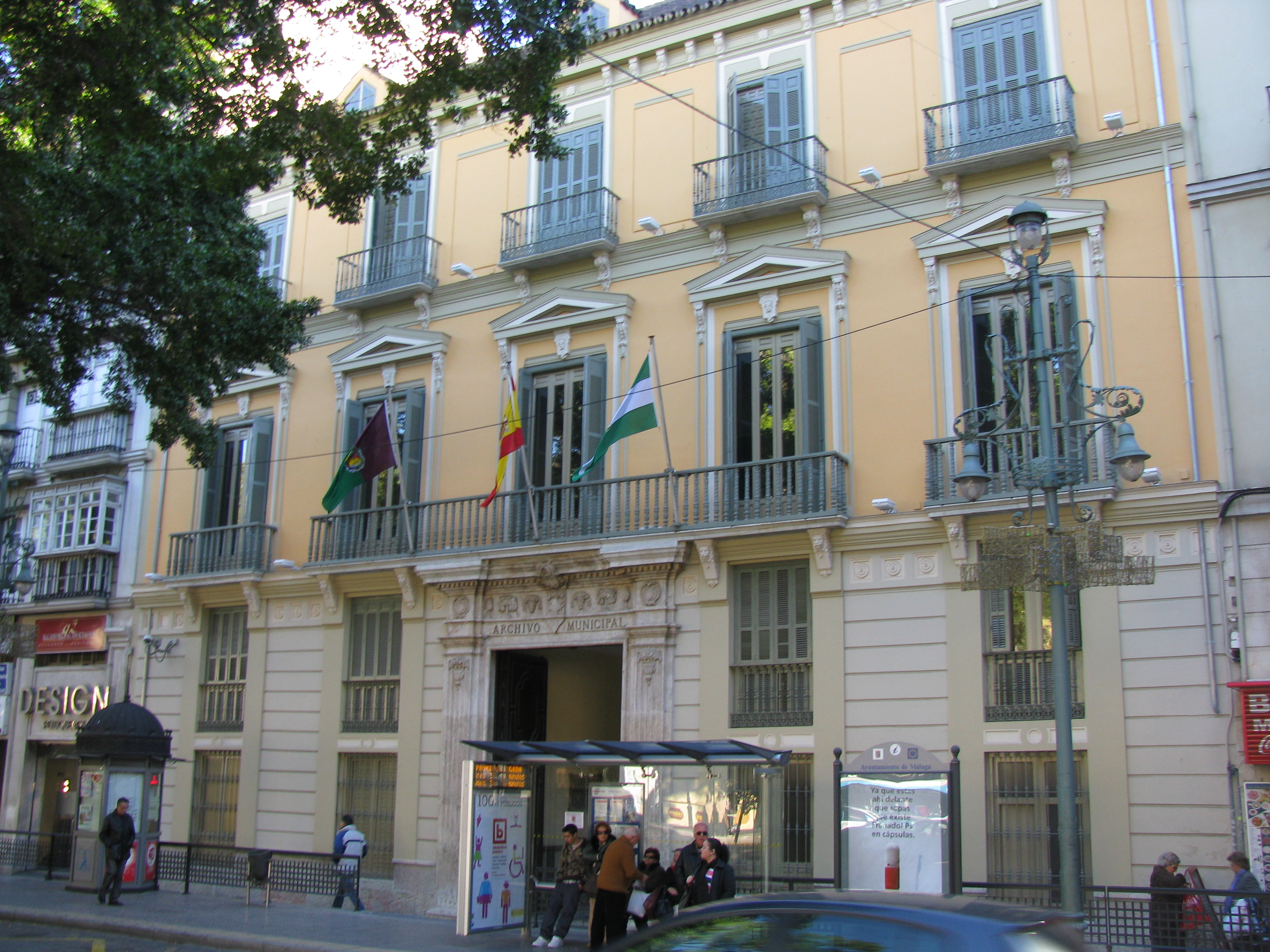 Municipal Archive, Alameda Principal 23, Málaga. Built 1792.